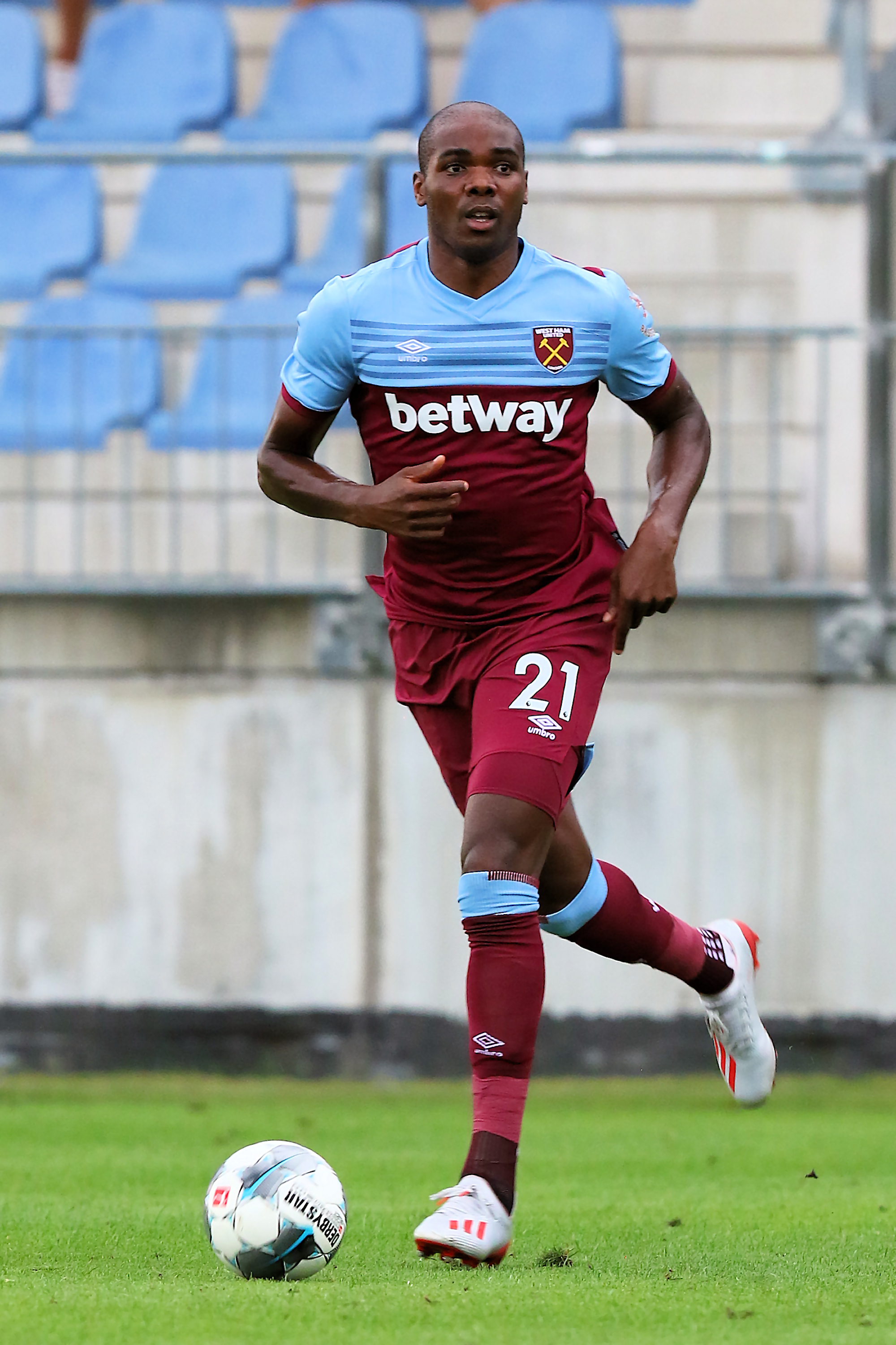 Friendly match Hertha BSC (blue-white shirts) vs. West Ham United (red-blue shirts) at 31-07-2019 3-5 (3-2) in the Sonnenseestadium in Ritzing. – The photo shows Angelo Ogbonna (West Ham United).